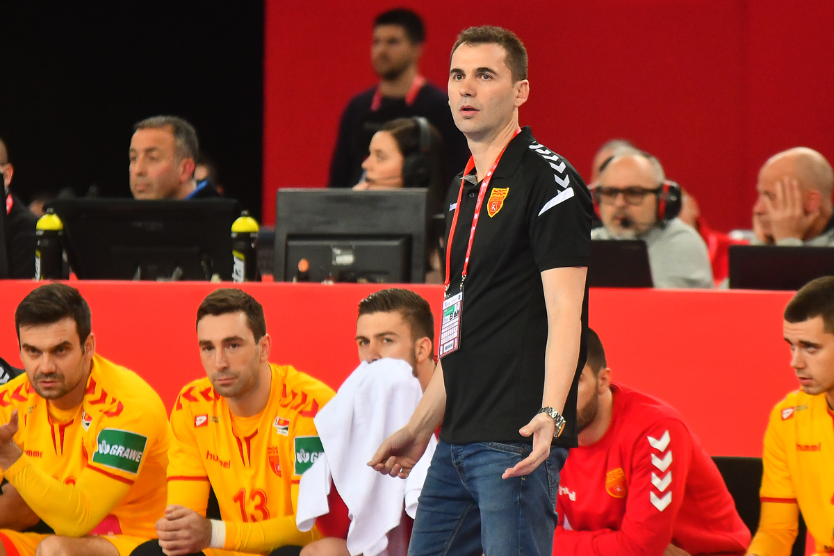 Raúl González Gutiérrez, coach of Macedonia handball national team at the EHF Euro 2018